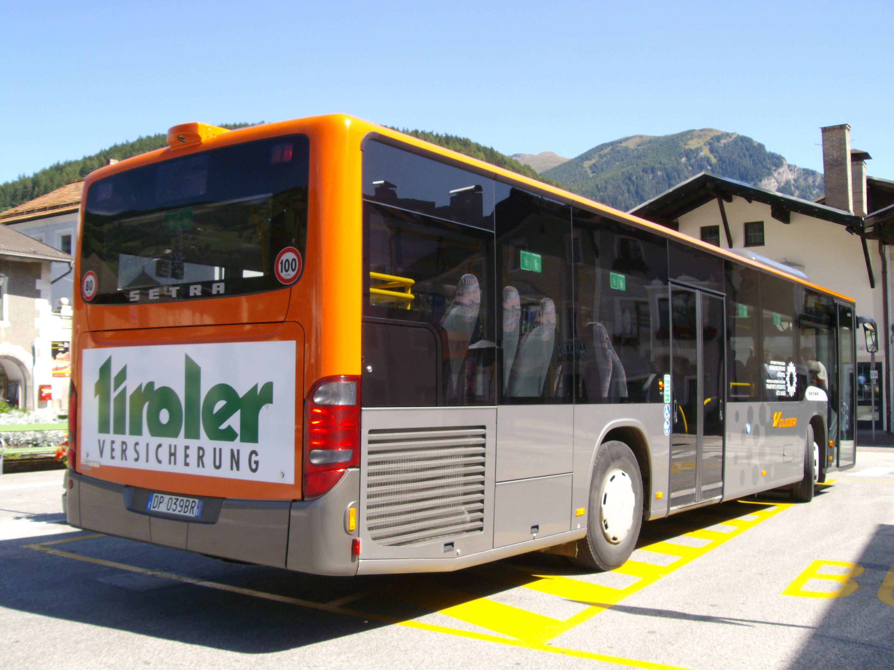 Italy, South Tyrol, Sterzing. Volgger of South Tyrol Integrated Transport Setra S 415 NF bus.